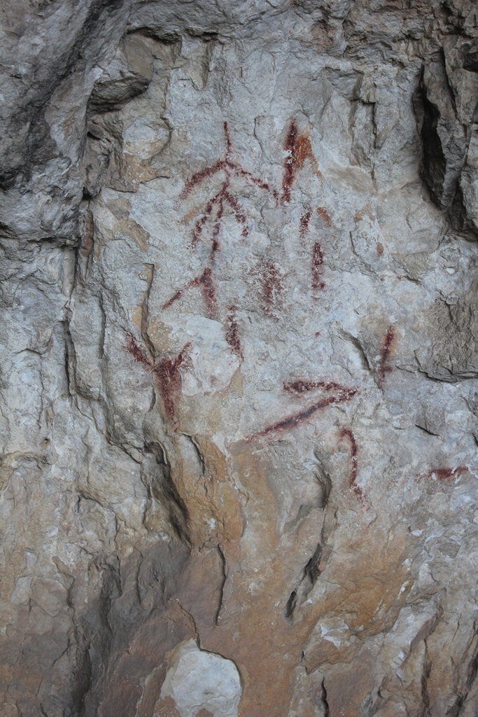 Abrigos de Barfaluy, Barfaluy II